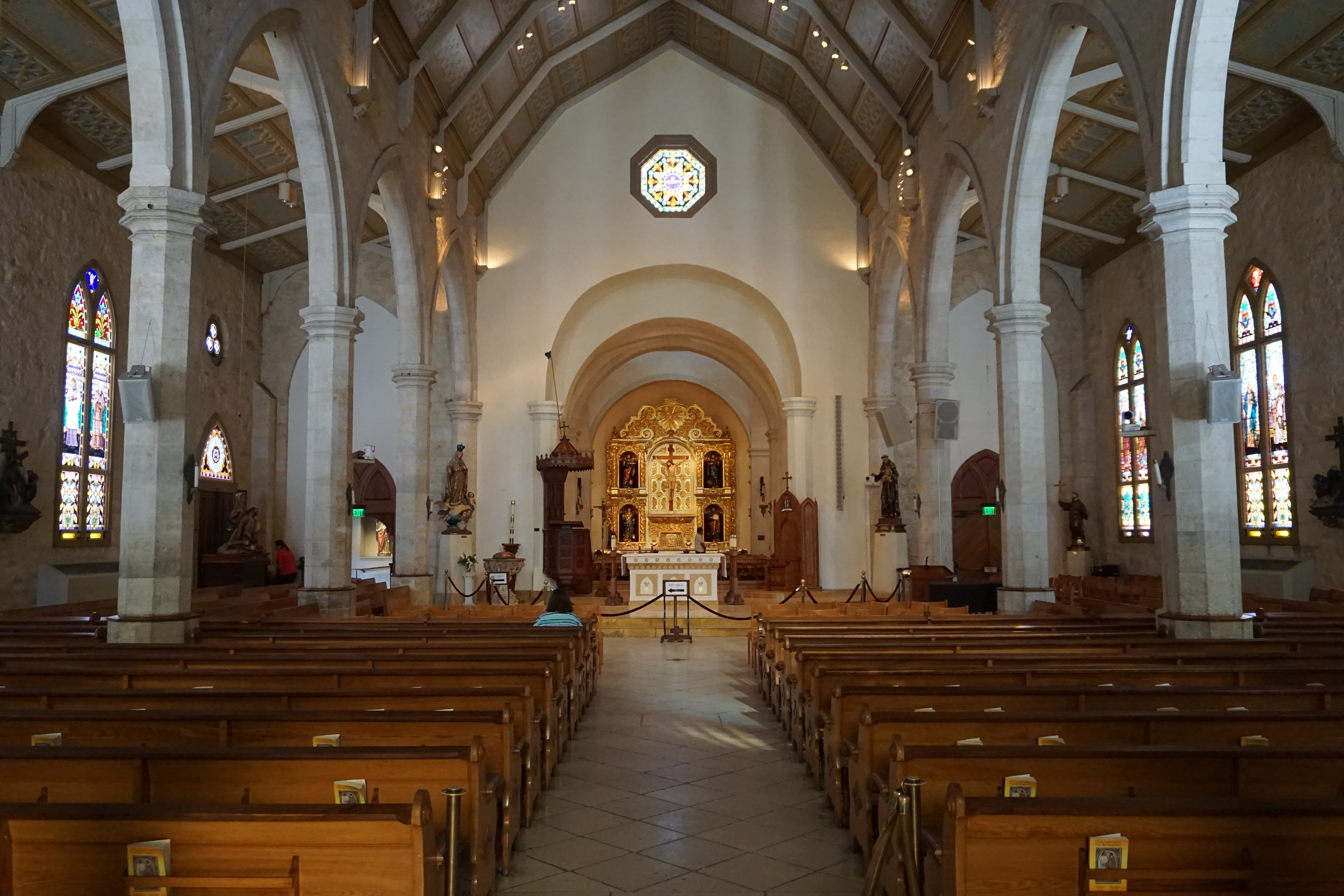 The interior of San Fernando Cathedral in San Antonio, Texas (United States).